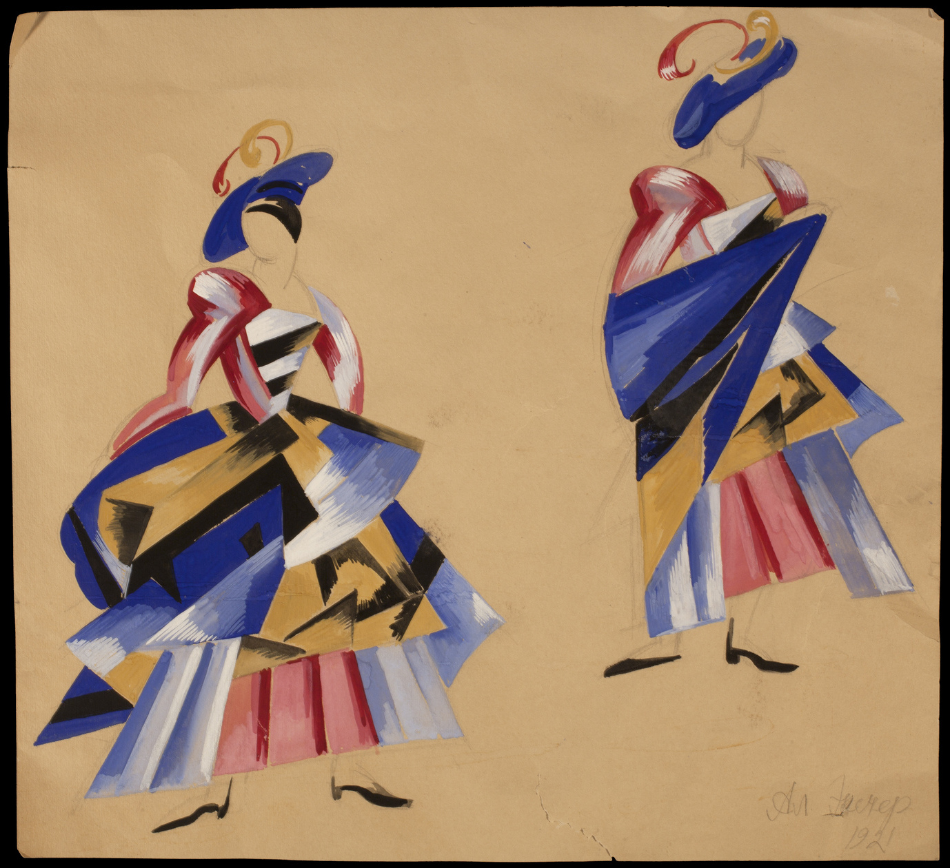 Alexandra Exter, "Costume design for Romeo and Juliette," 1921